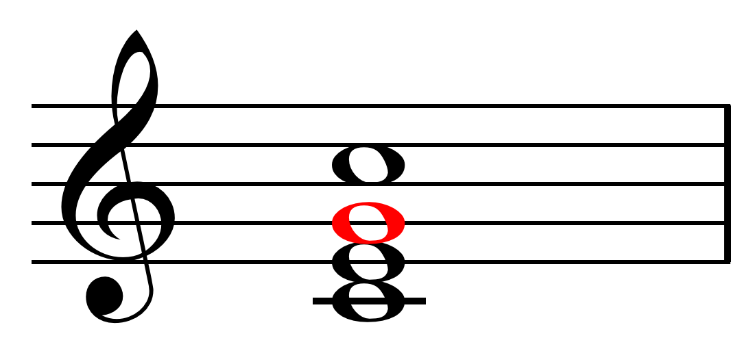 Fifth (G), in red, of a C major chord.